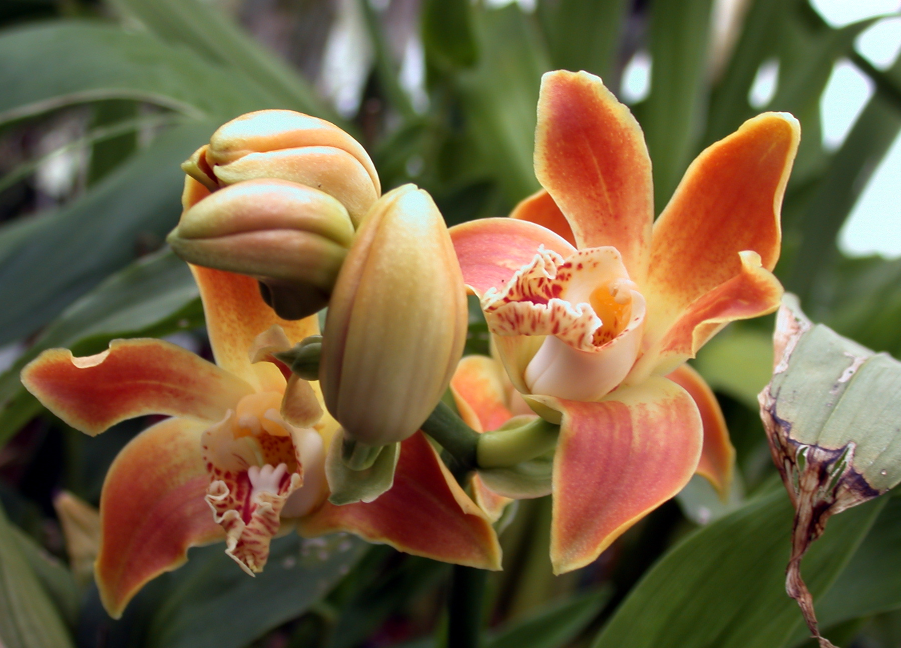 Chysis aurea